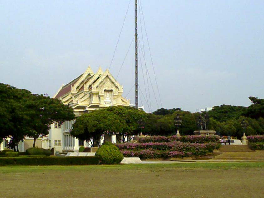 Main auditorium of Chulalongkorn University, Bangkok, Thailand, visible in front is the statue of King Chulalongkorn and King Vajiravudh